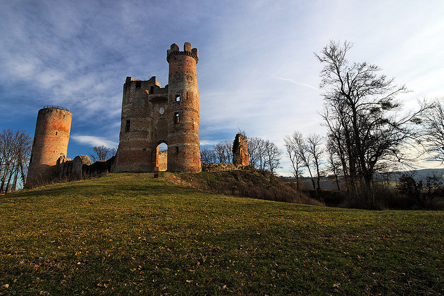 Château de Bressieux